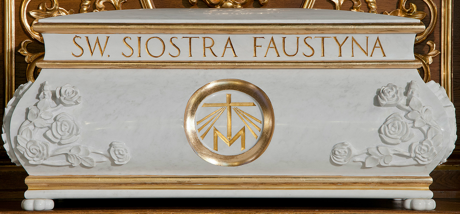 Coffin of santa Faustina Kowalska